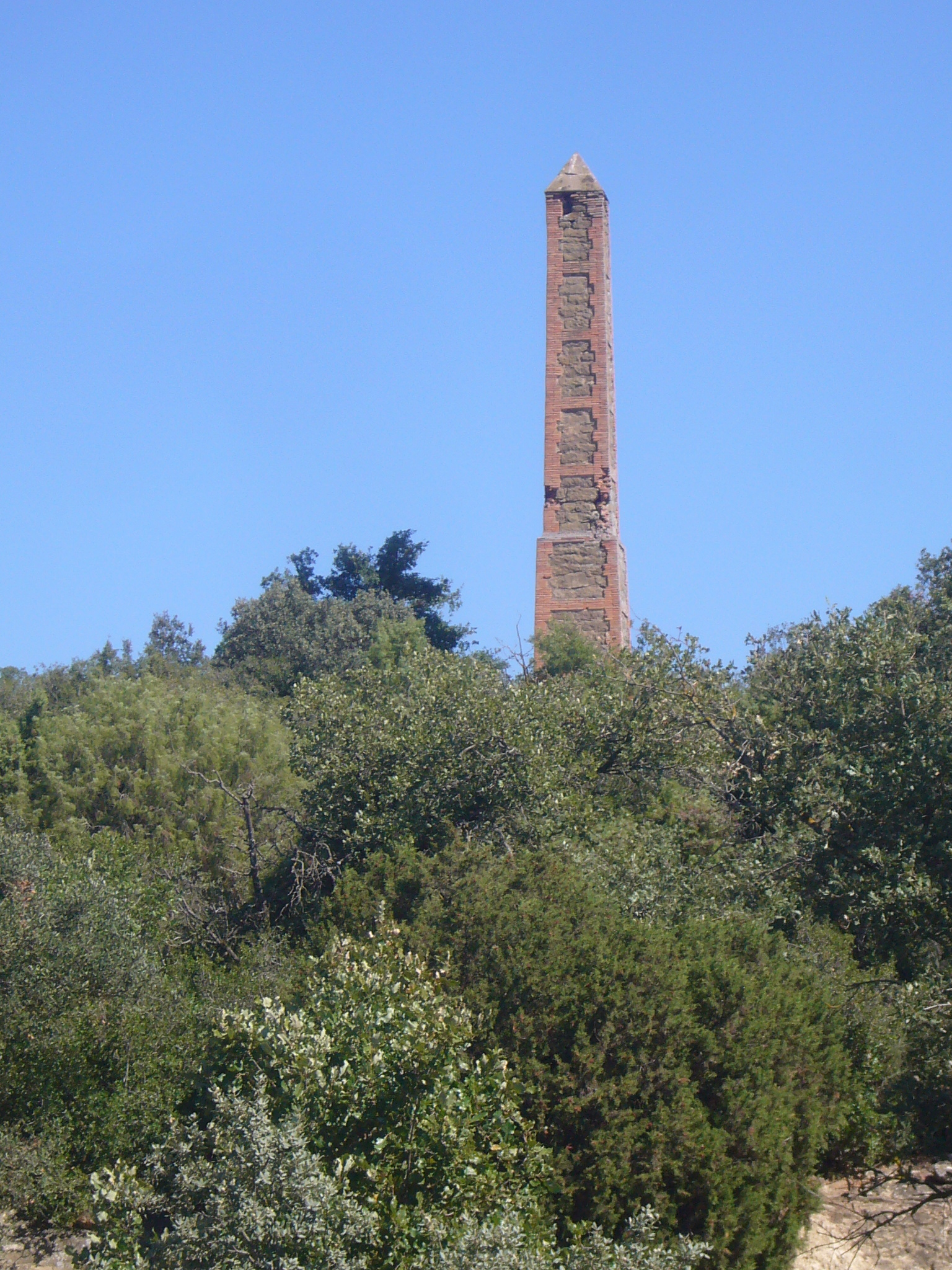 Tower used when the "mina de montclar" tunnel was built in the XIX century